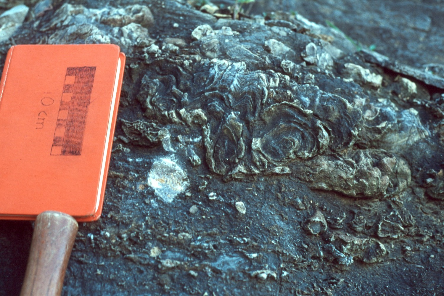 Stromatoporoids in the Silurian-Devonian Keyser Formation, Old Eldorado Quarry, at Mile Marker 30 along Interstate 99/US220 in Blair County, Pennsylvania, south of the Plank Road Exit on the east side of the road. Taken 2003.